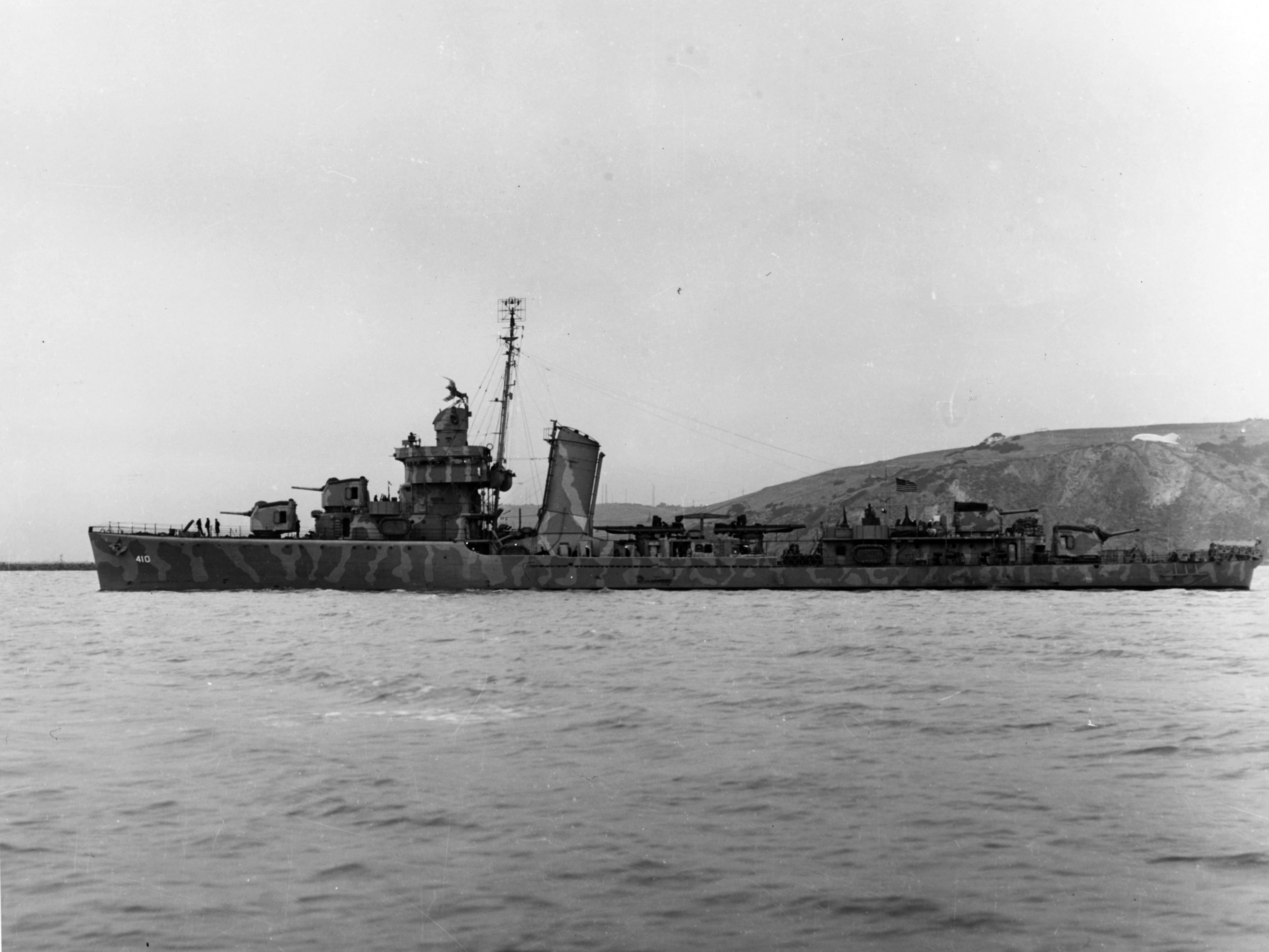 USS Hughes (DD-410) off the Mare Island Navy Yard, California, 1 August 1942. U.S. Navy photo Original caption: "Photo # NH 97915 USS Hughes off the Mare Island Navy Yard, California, 1 August 1942" — removed caption